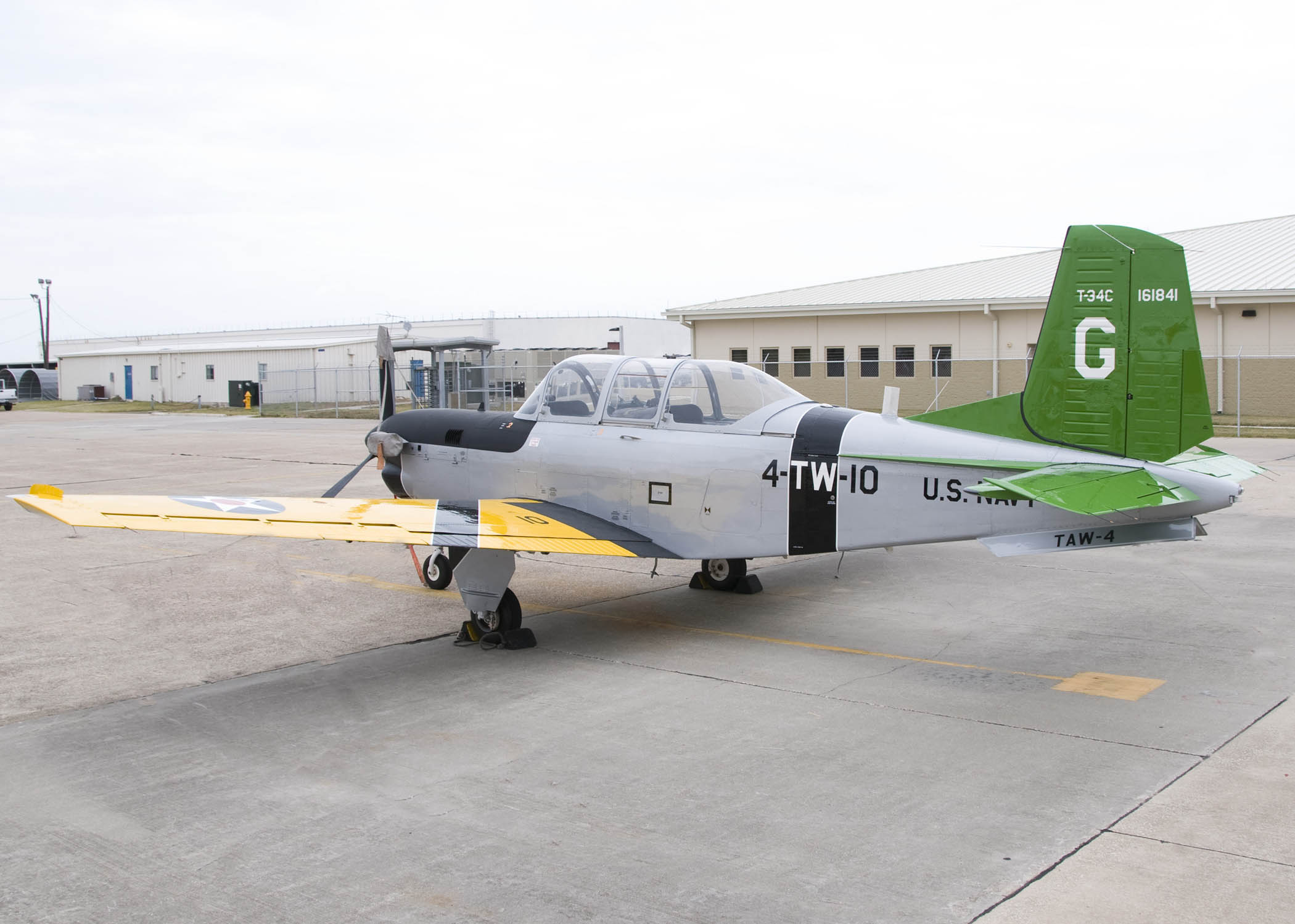 CORPUS CHRISTI, Texas (Dec. 28, 2010) A T-34 Turbo with World War II paint, assigned to Training Air Wing 4, is at Training Squadron (VT) 27. As naval aviation prepares for its 100th year anniversary in 2011, more than 20 aircrafts in the fleet will receive the World War II paint to commemorate the Centennial of Naval Aviation including fixed and rotary aircraft. These aircrafts will be statically placed within The Chief of Naval Air Training Command as a reminder of the contributions and sacrifices of Navy Aviators past and present as well as our Marine Corps and Coast Guard Aviators. (U.S. Navy photo by Richard Stewart/Released)